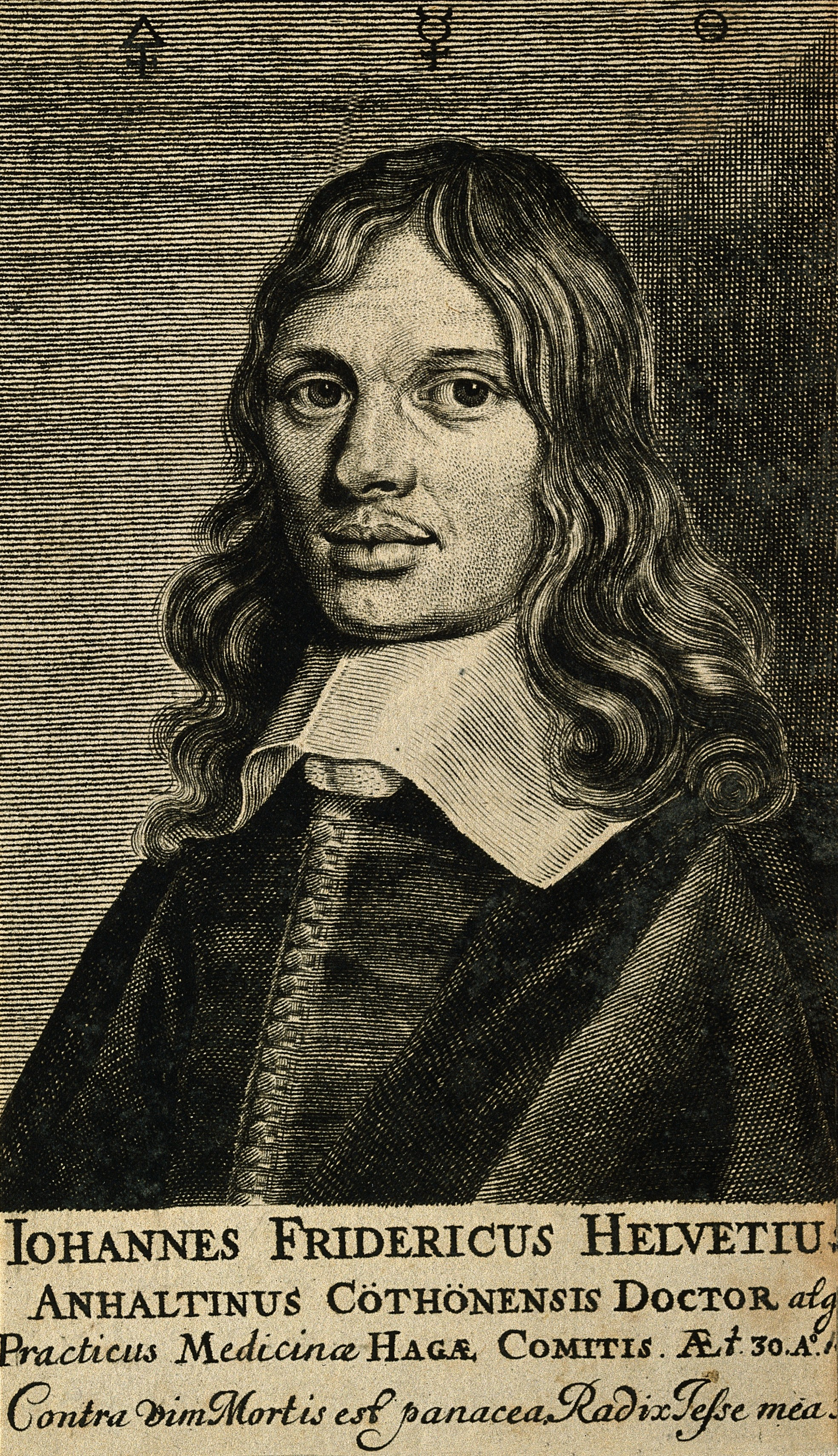 Johannes Friedrich Helvetius. Line engraving. Iconographic Collections Keywords: portrait prints; engravings; Johann Friedrich Helvetius